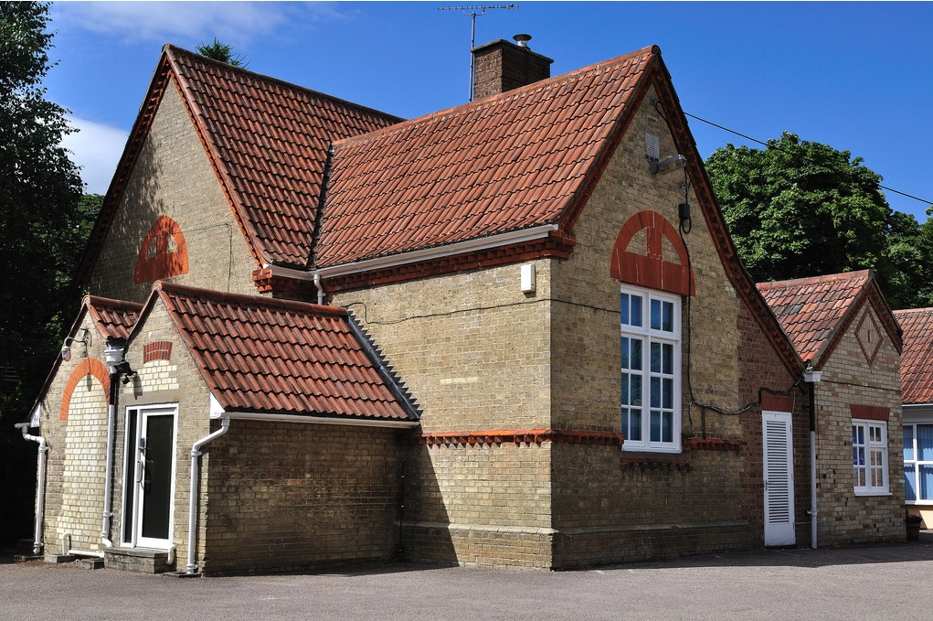 A small primary school in Norfolk, England.